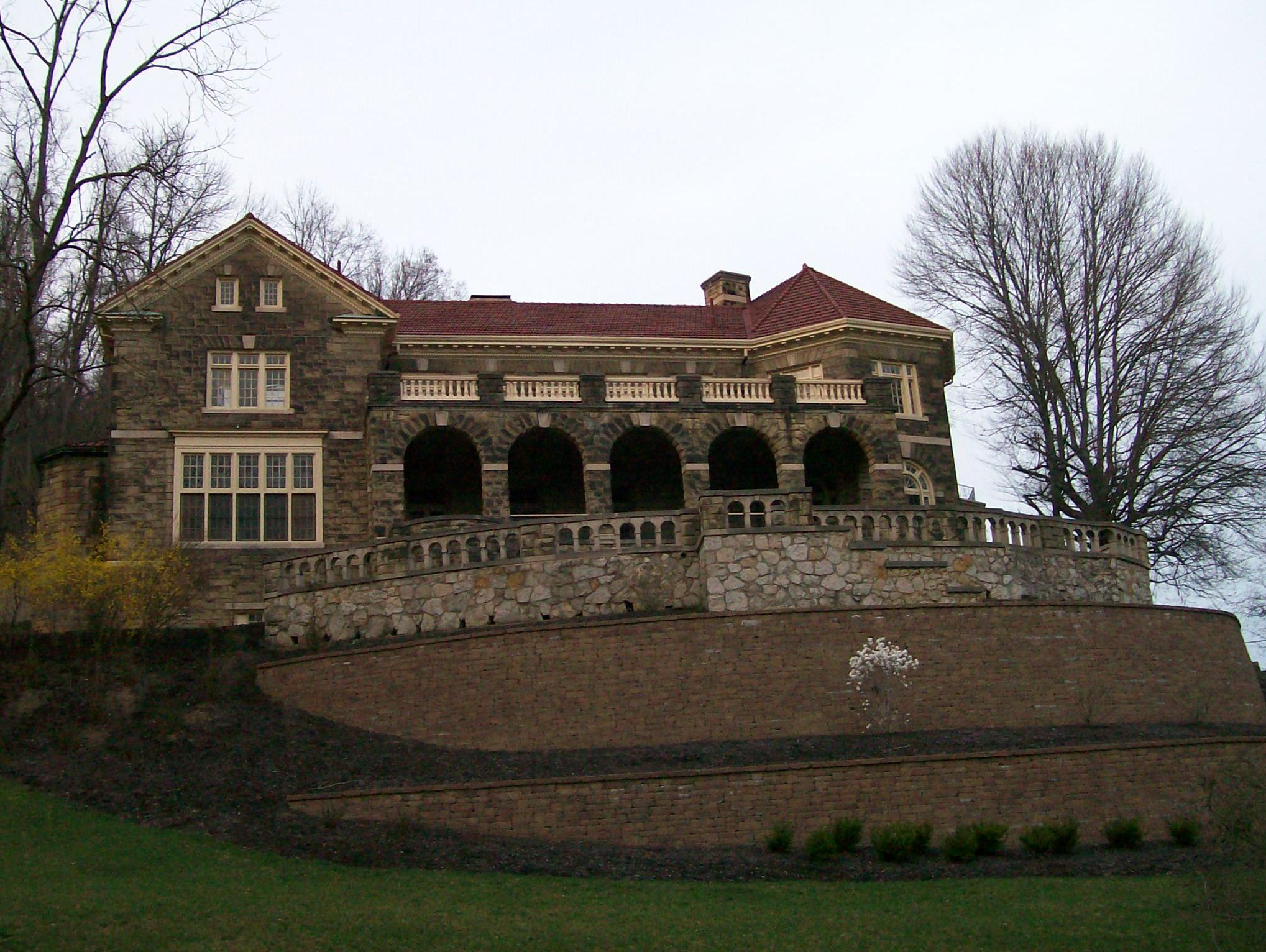 The Johnson Camden McKinley House at 147 Bethany Pike (S.R. 88) in Wheeling, West Virginia. The house sits atop a hill overlooking a small creek and landscaped gardens and walks. The southern facade is photographed on April 2, 2010.